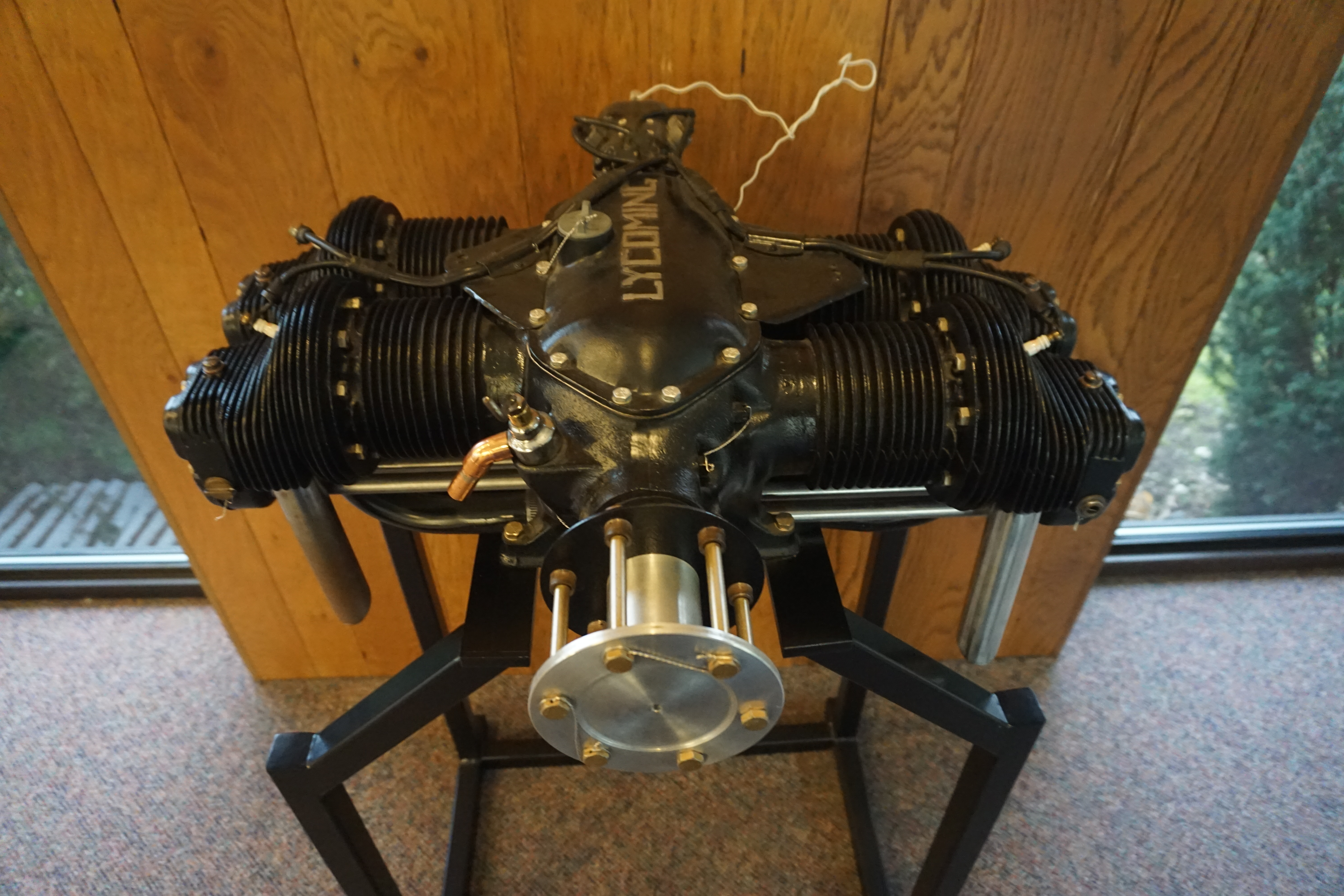 A Lycoming Model O-145-B on display at the Air Zoo at Kalamazoo/Battle Creek International Airport in Portage, Michigan (United States).